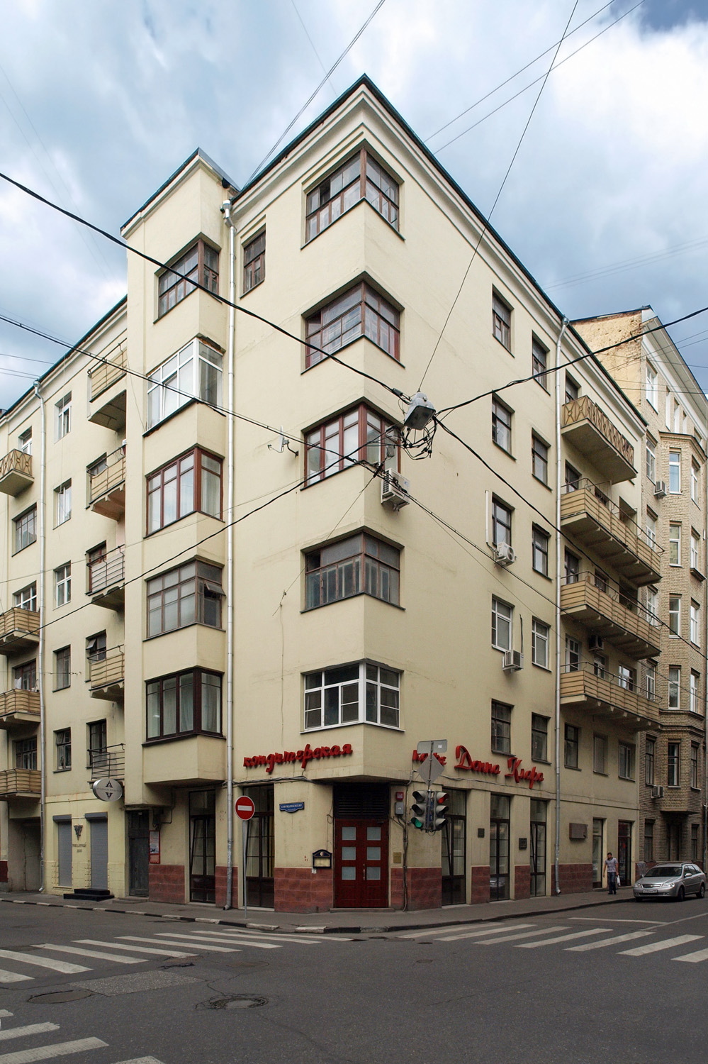 Malaya Bronnaya Street, Moscow.